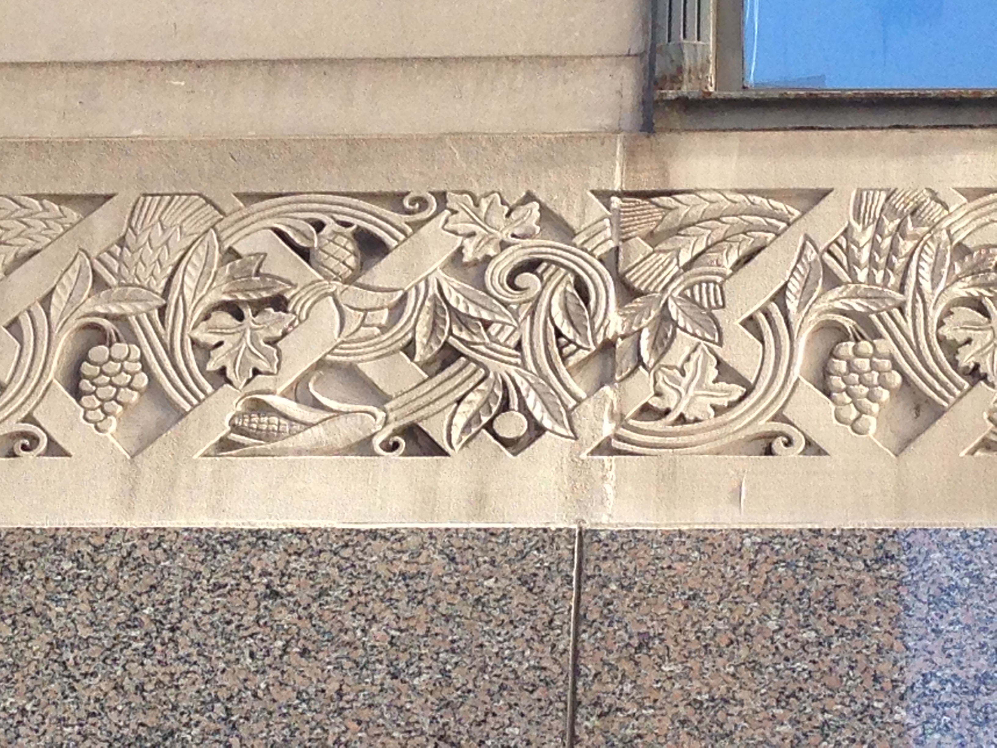 Chicago board of trade building detail